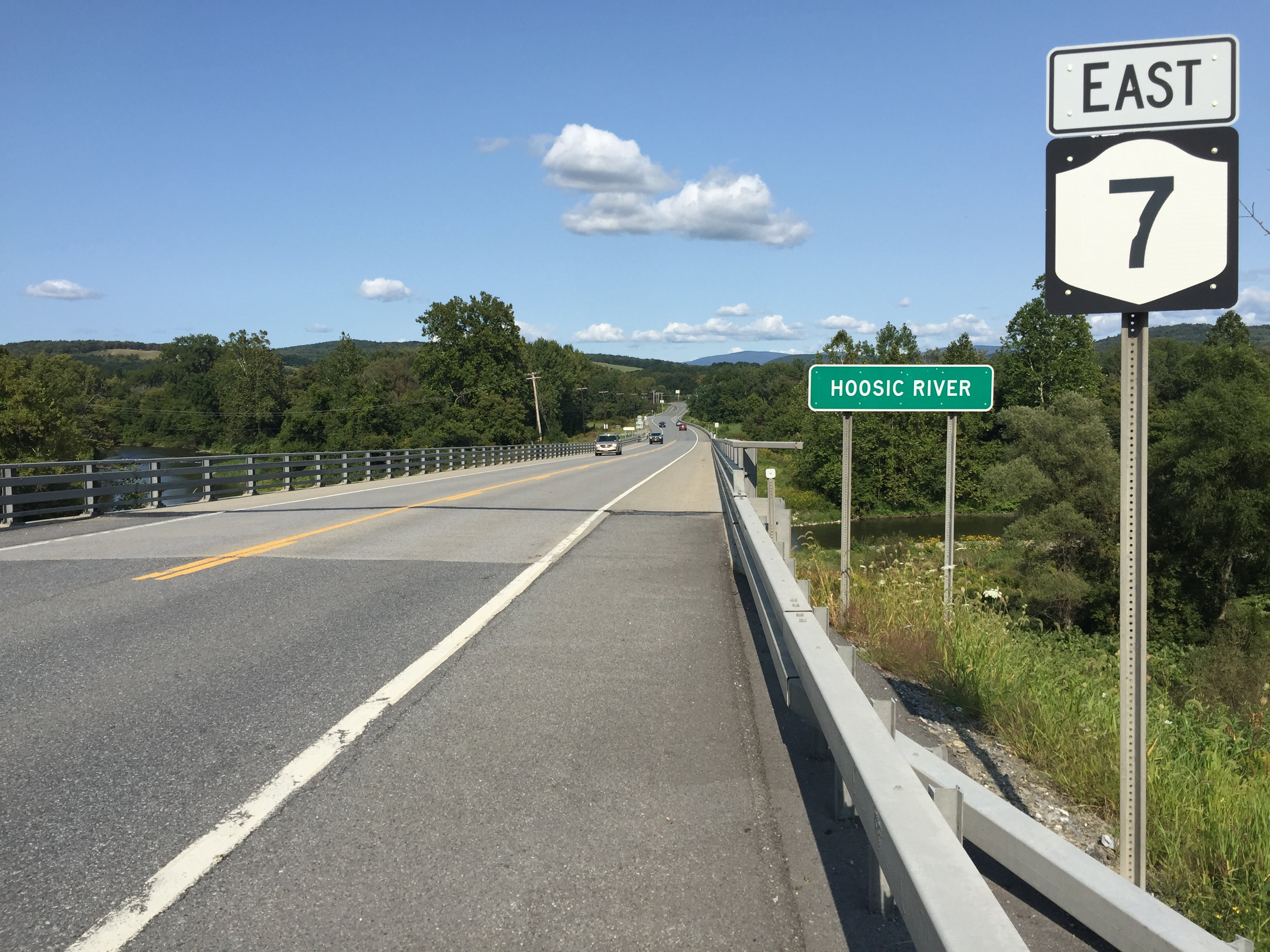 View east along New York State Route 7 (Mapletown Road) at New York State Route 22, just before crossing the Hoosic River in Hoosick, Rensselaer County, New York